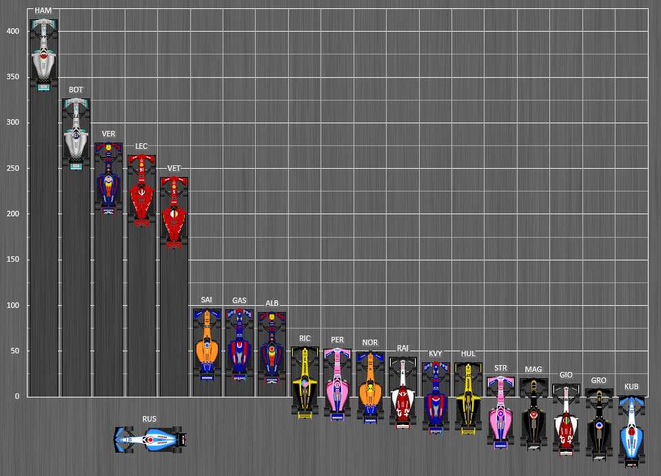 chart of final standings of the 2019 Formula One season